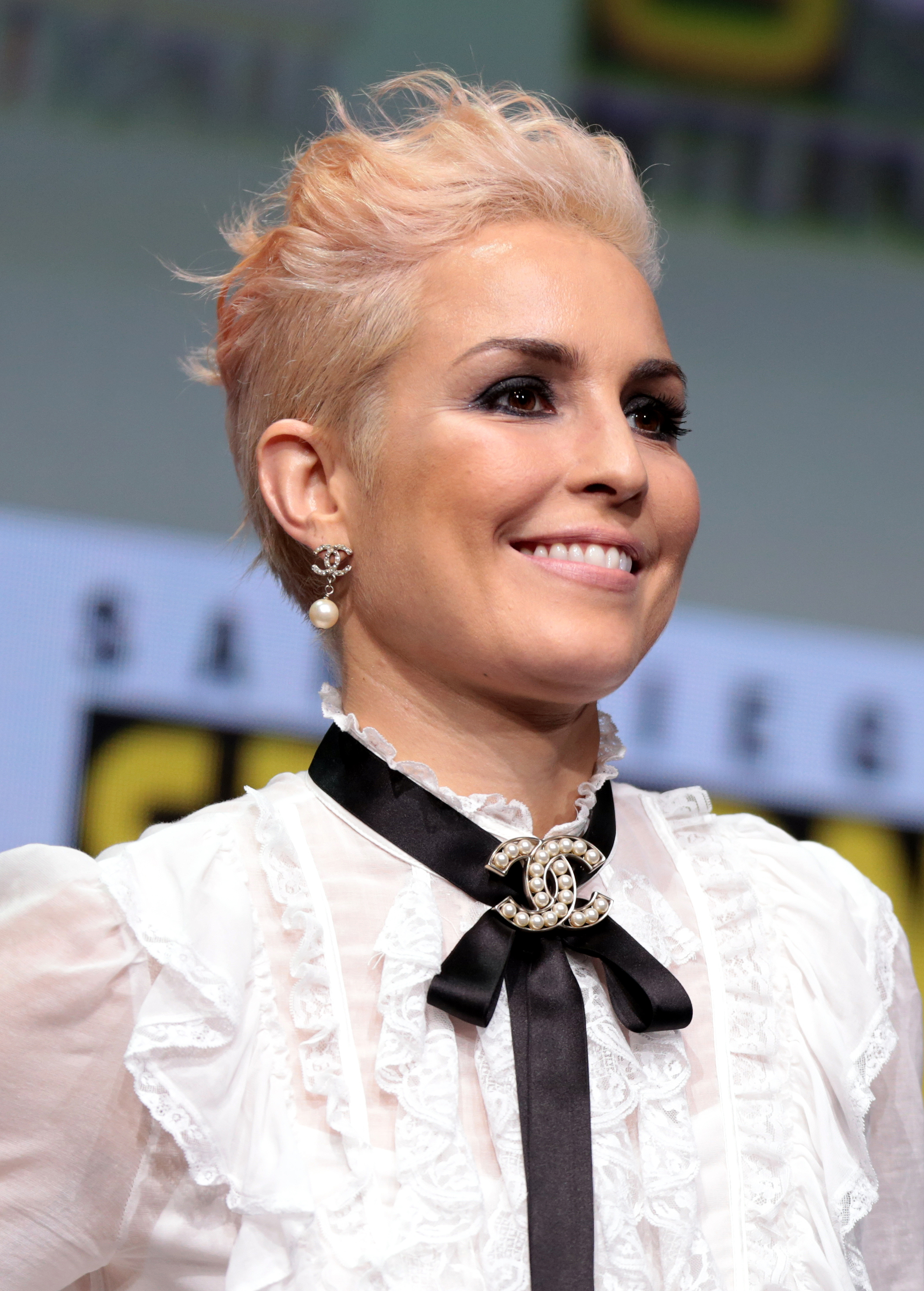 Noomi Rapace speaking at the 2017 San Diego Comic-Con International in San Diego, California.